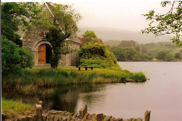 St. Finbar's Church,Cougane Barra,West Cork